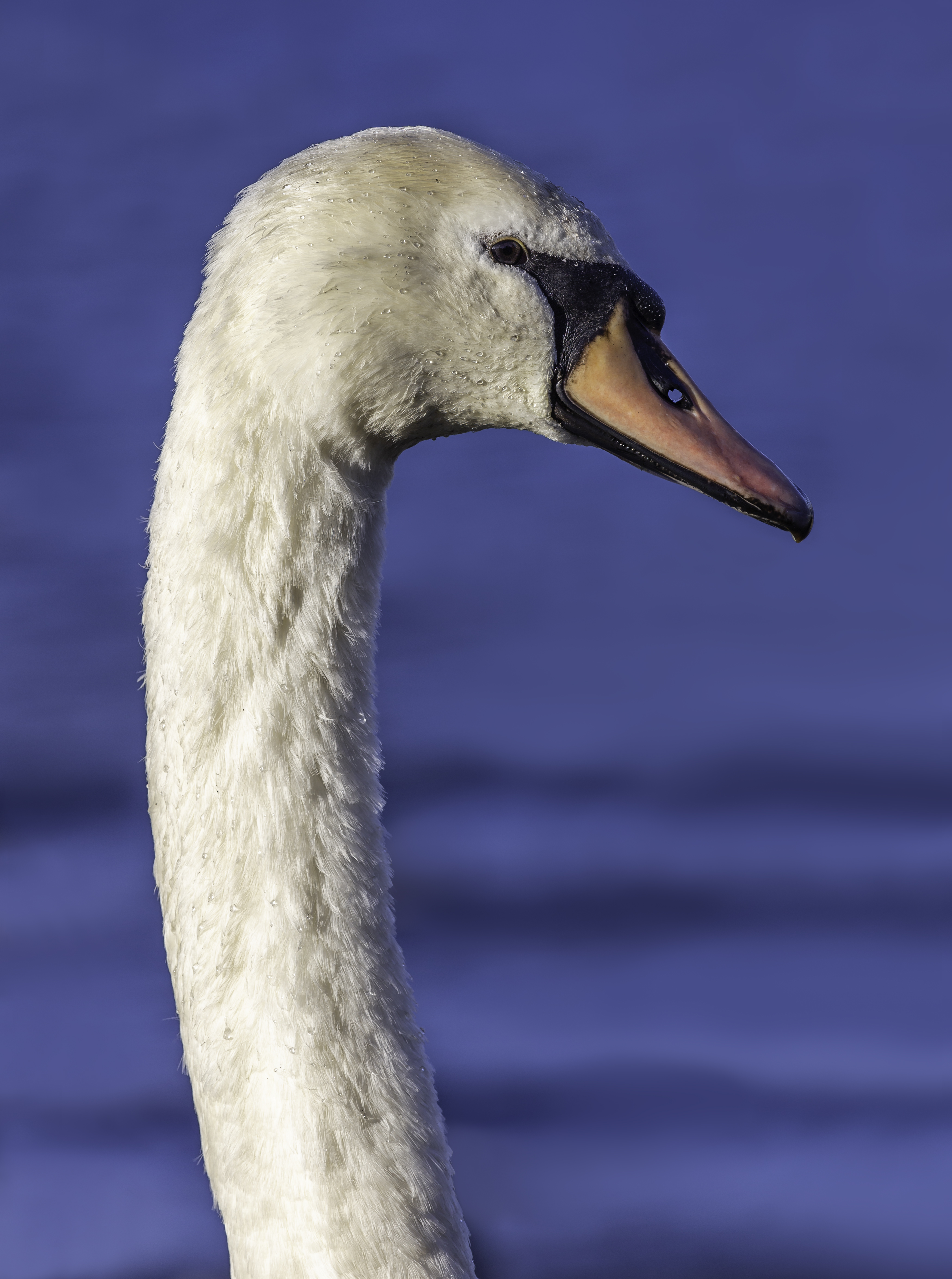 Portrait of mute swan (Cygnus olor) on the background of Windermere Lake, Bowness-on-Windermere, England